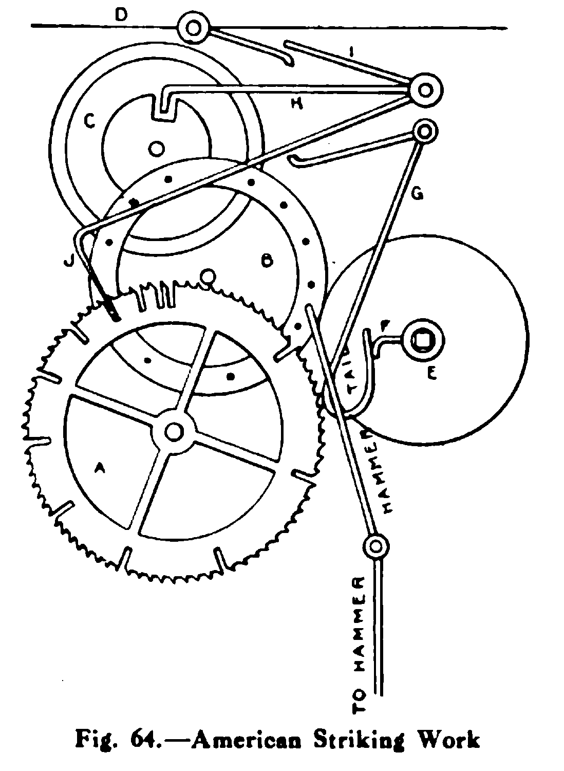 Diagram of countwheel striking mechanism as typically found on a 19th century US brass clock. From Clock Cleaning and Repairing (Cassell, New York, 1917)